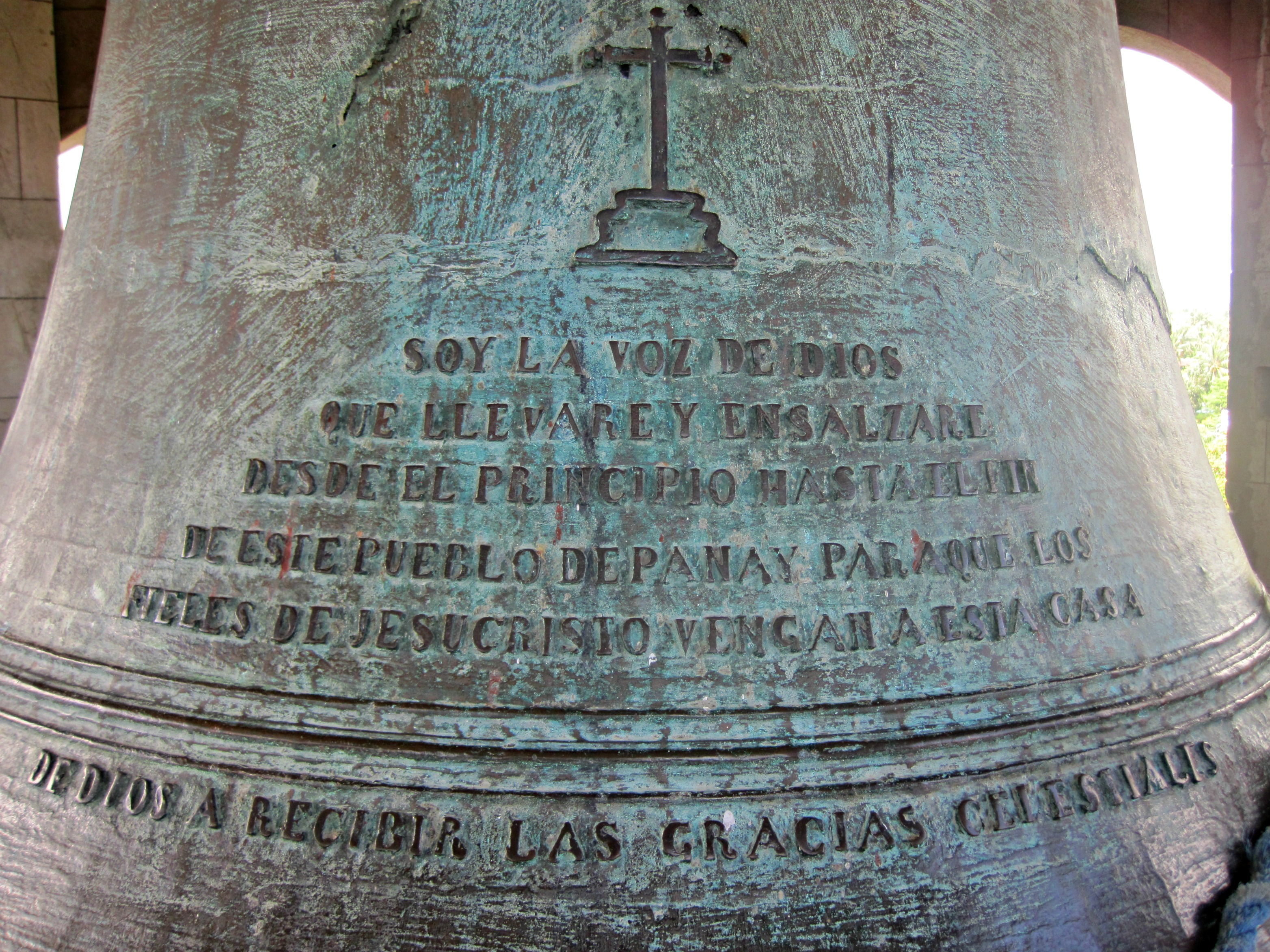 Inscription of the Largest Bell in the Philippines and Asia